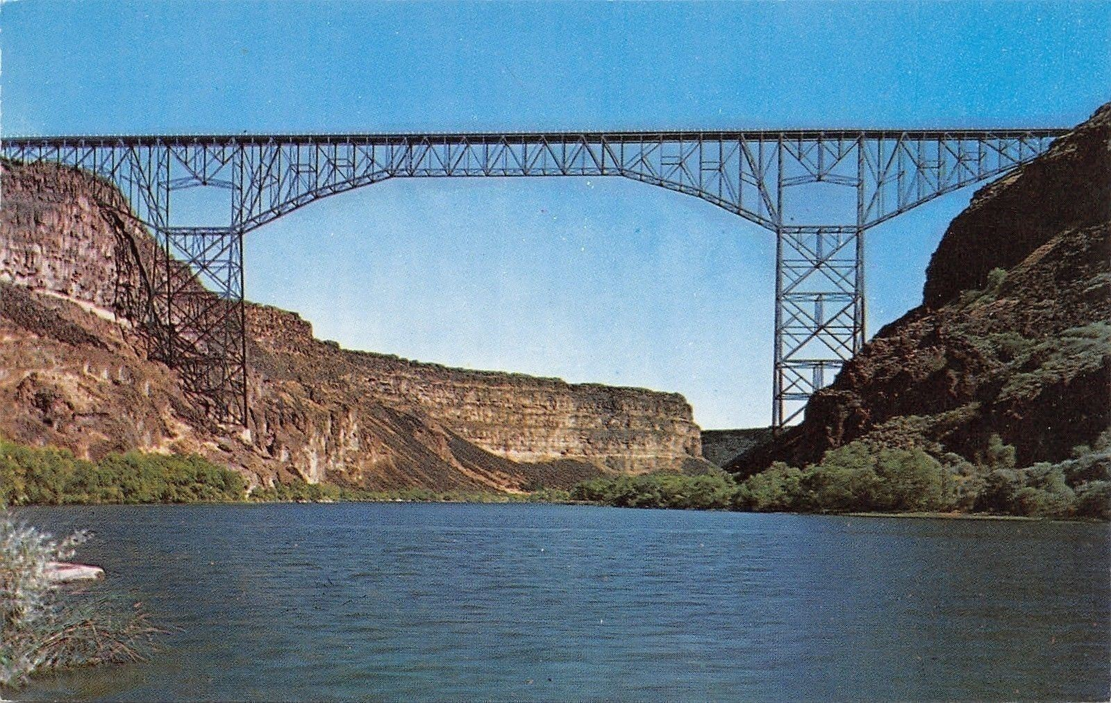 Original Perrine Bridge across the Snake River in Twin Falls, Idaho - opened in 1927, replaced in 1976 by the current Perrine Bridge, and later disassembled.